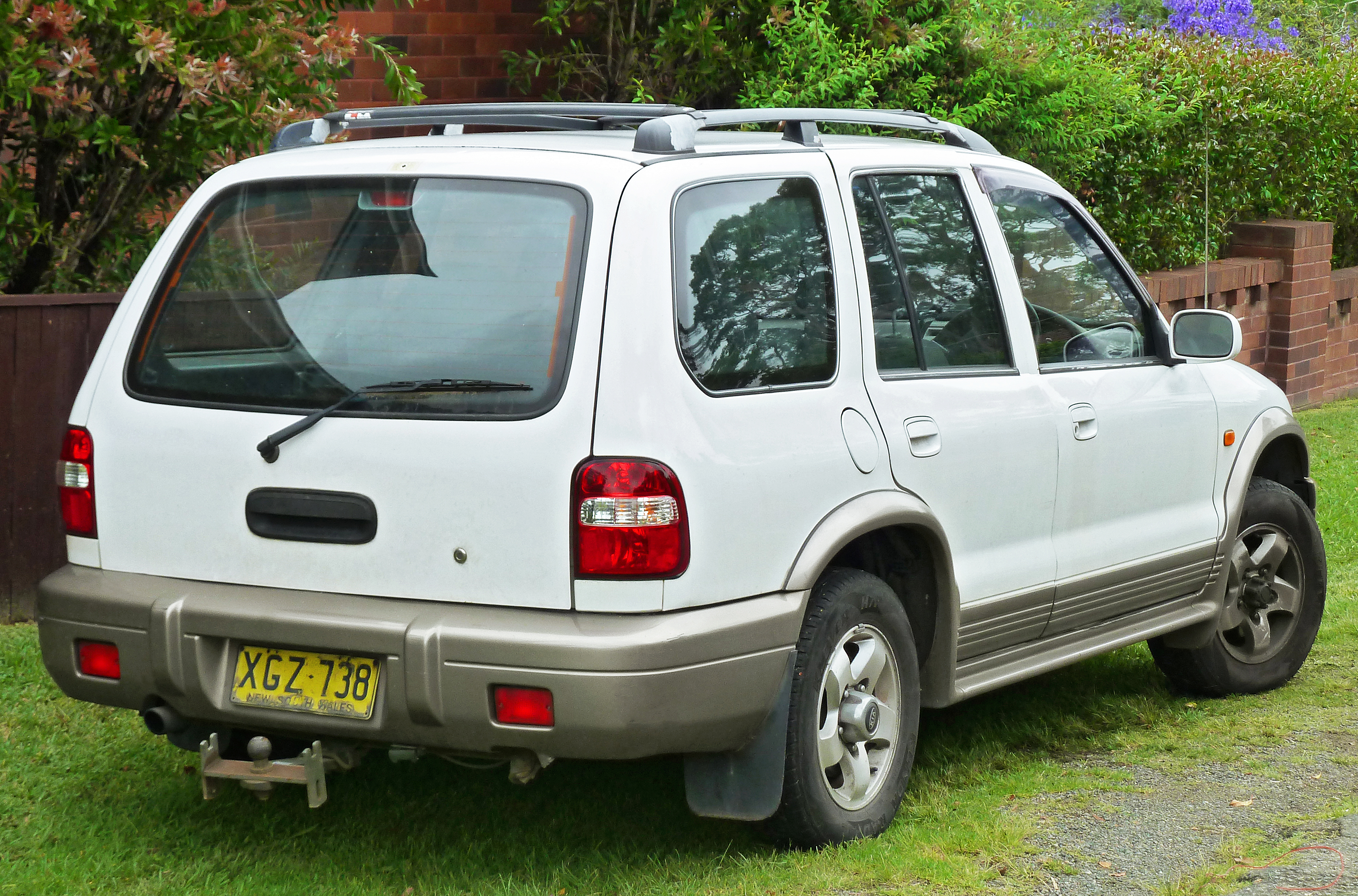 2001 Kia Sportage (NB-7 MY01) wagon. Photographed in Killara, New South Wales, Australia.